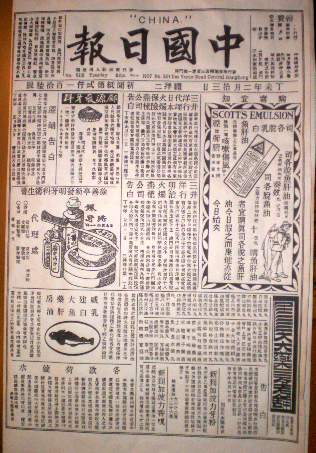 香港歷史博物館, Hong Kong Museum of History, 中国报纸 Chinese newspaper history.